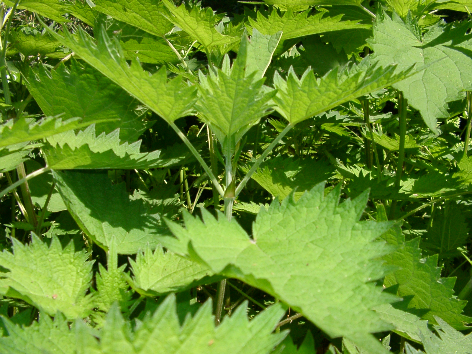 Urtica thunbergiana Manazuru-machi, Japan.